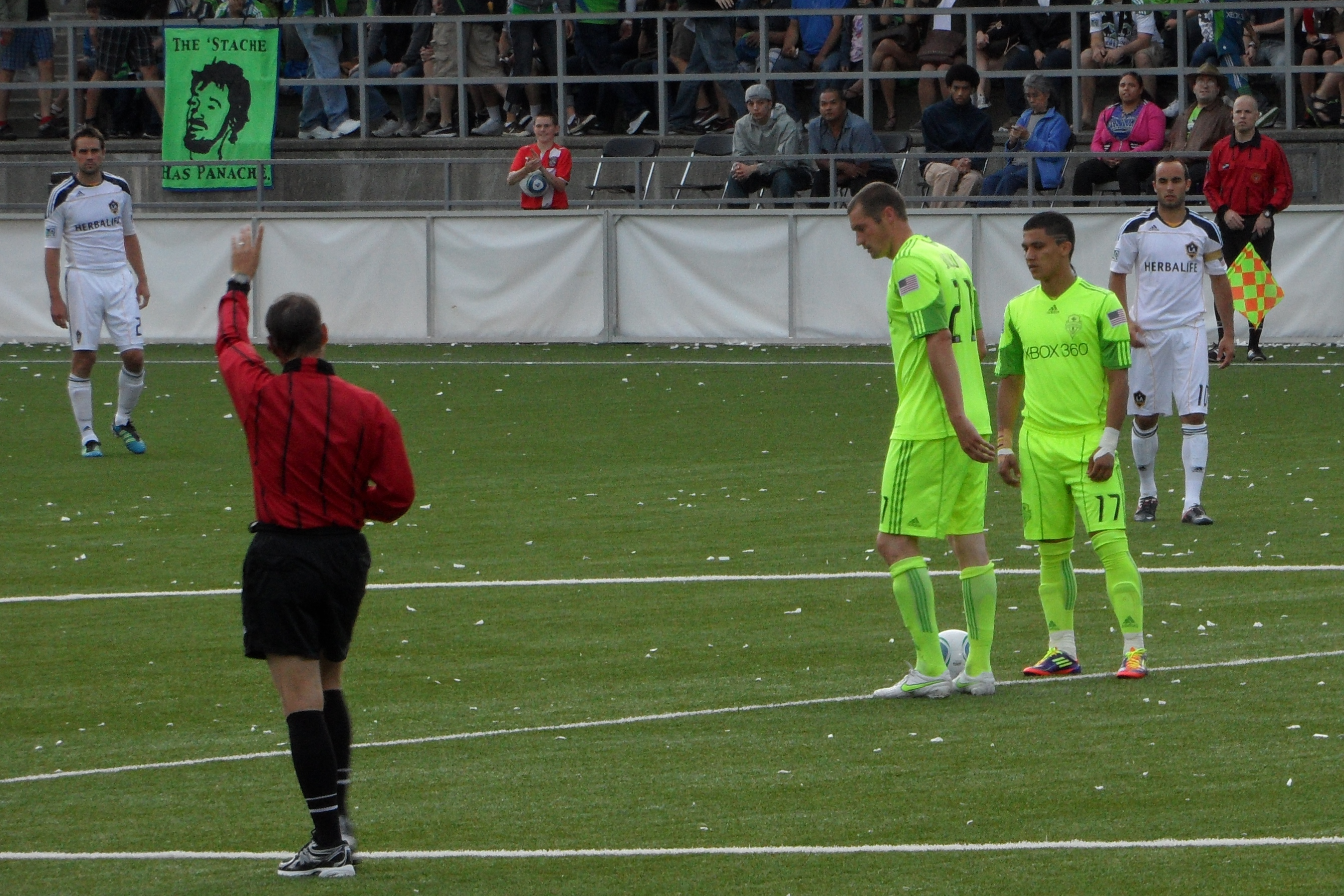 Kickoff for the second half of the quarterfinals of the 2011 USOC.